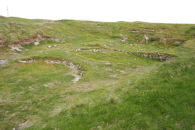 Bronze Age Settlement This is a small part of what was an extensive settlement dating back to around 2200 BC and occupied until at least 500 BC. The round houses were partially sunk into the ground, with low walls and roofs thatched with reeds. Changing climate and rising sea levels eventually led to the abandonment of the settlement, and it was engulfed by the sand until discovered during sand extraction. It was excavated in the late 20th century.